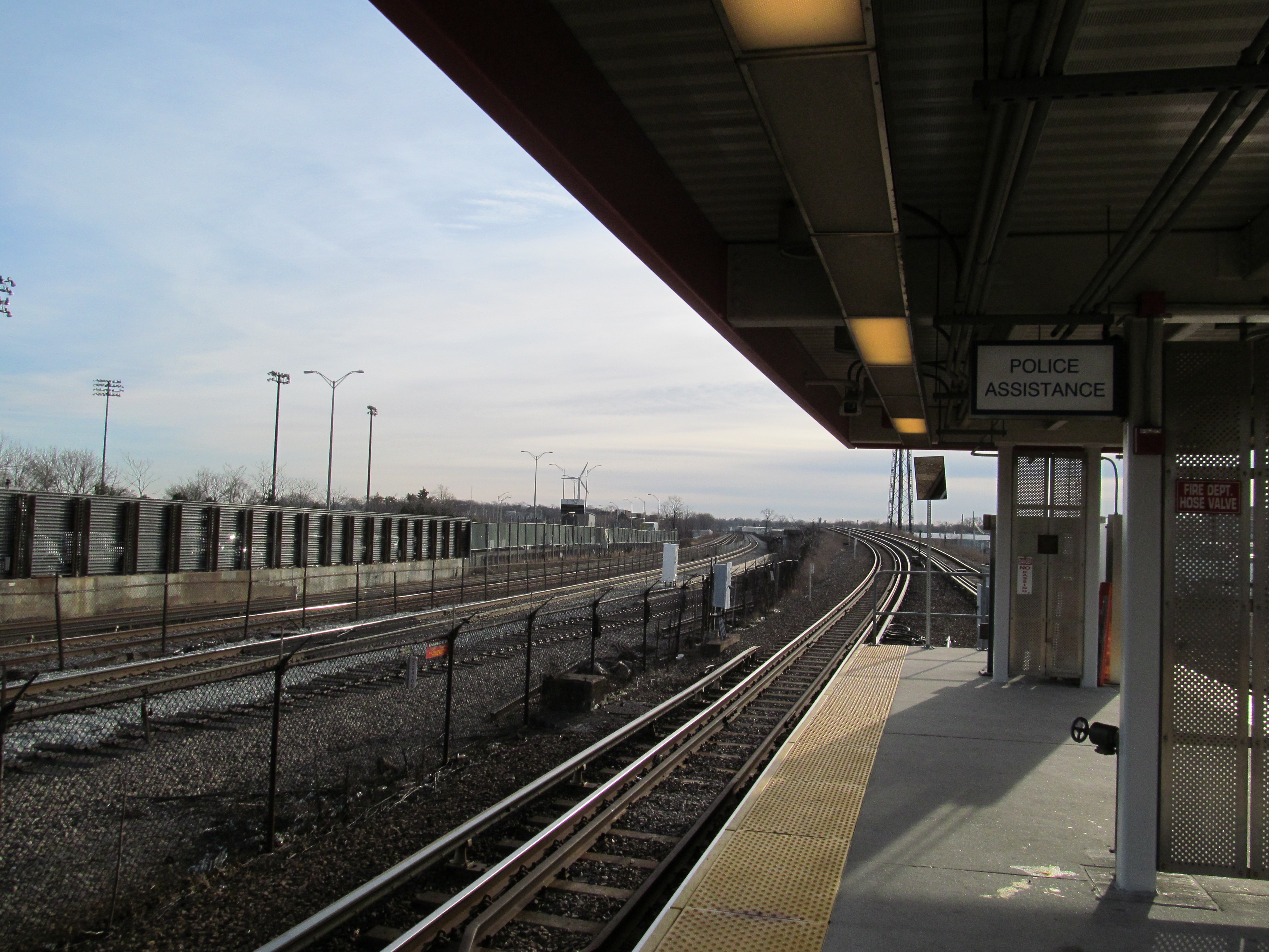 Savin Hill station. From left: Braintree Branch (2 tracks), Old Colony Lines (1 track plus abandoned freight siding), inbound track, and platform.